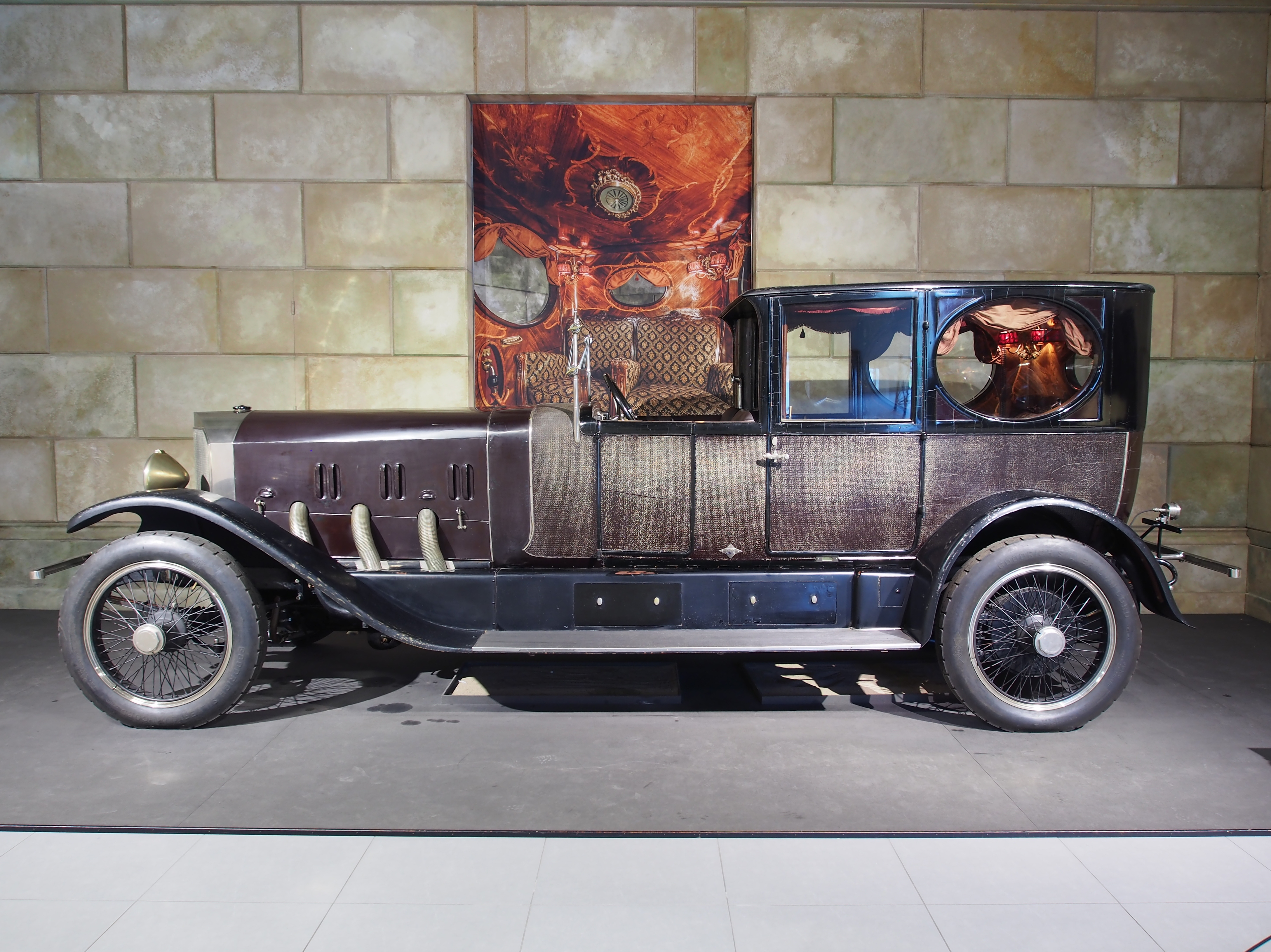 1922 Joswin Town Car photographed at the Louwman museum.